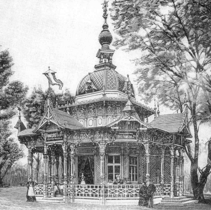 François Champagne factory exhibition pavilion